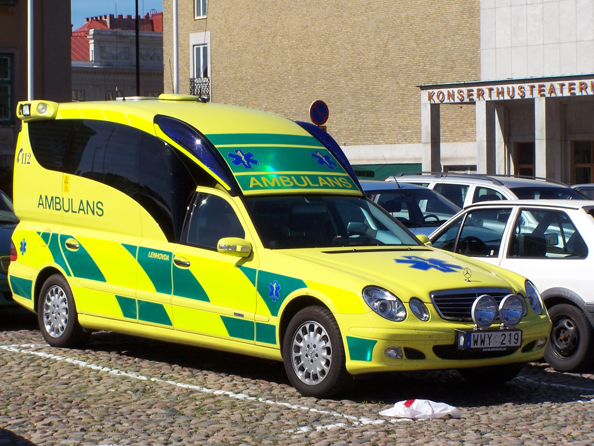 Ambulance from Landstinget Kronoberg, Sweden. The car is a Mercedes Benz E 270 CDI (2004) (source: [1].